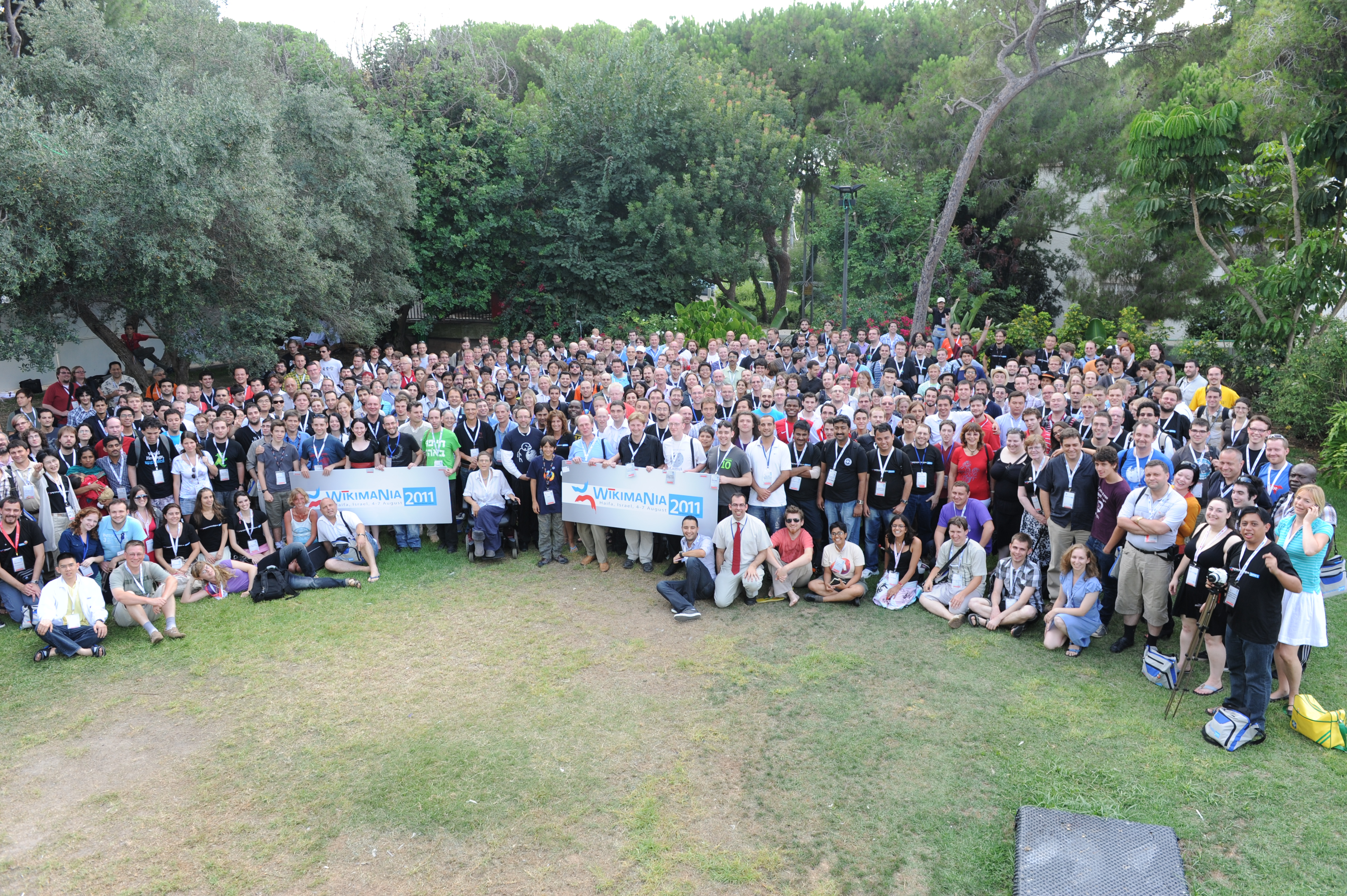 Haifa - Wikimania 2011: Group picture